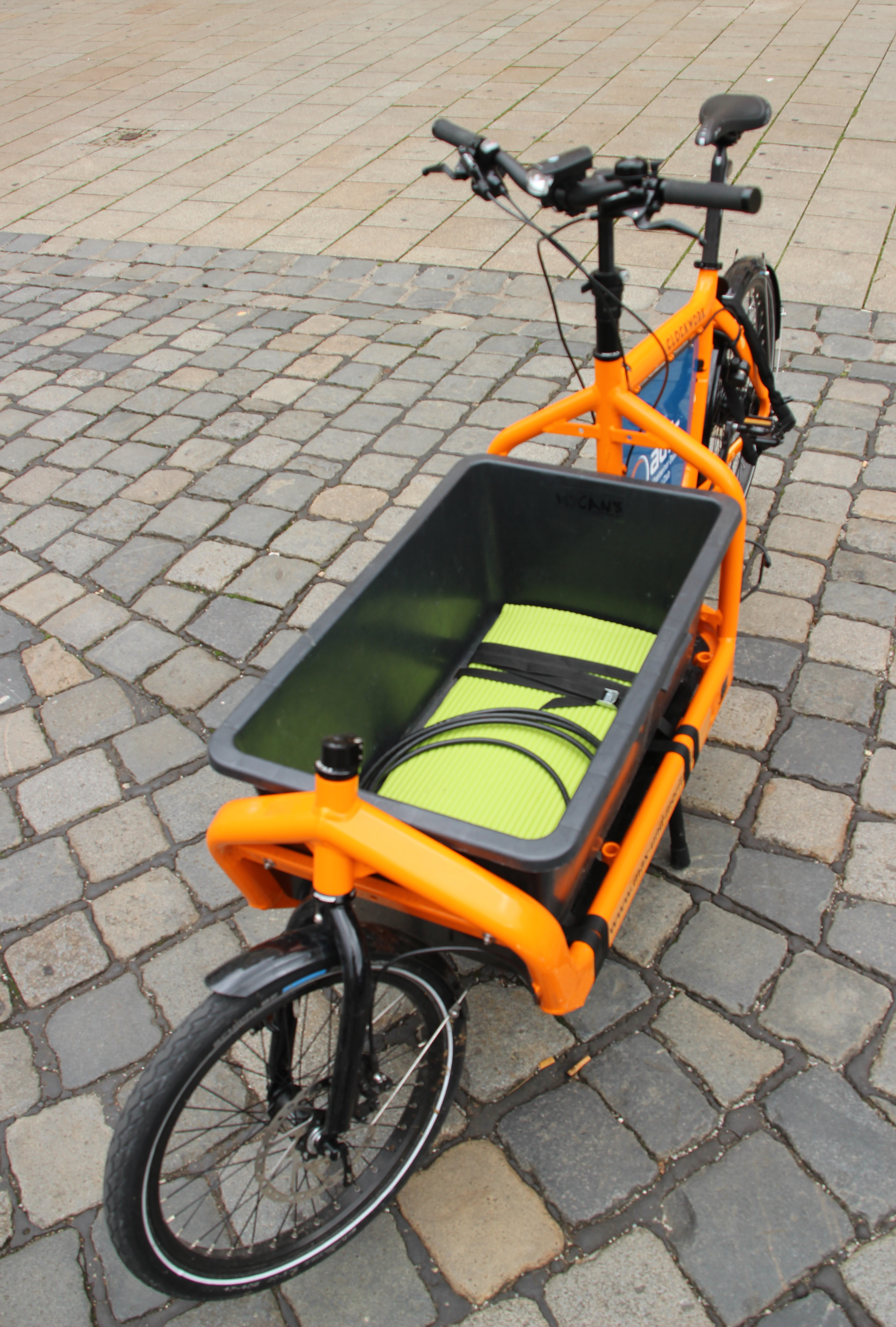 Cargo bike Bullitt (orange: Clockwork, cylindrical steering, therefore from 2014 or earlier) from Larry vs Harry, Denmark. Hydraulic disc brakes, handlebar 100 mm lifted, load bay with honeycomb board(s), advertising board in frame. Mortar trough. In Augsburg, Germany.